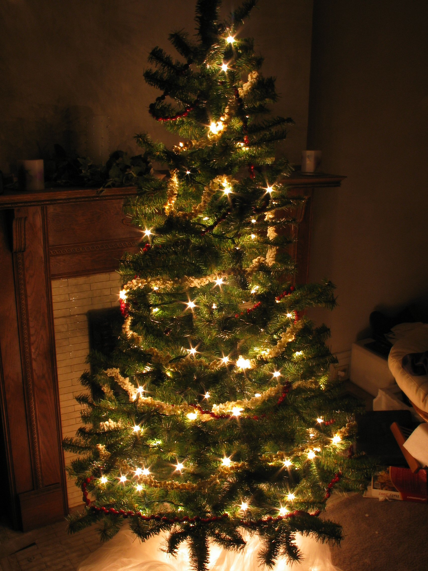 Our Christmas tree at night.